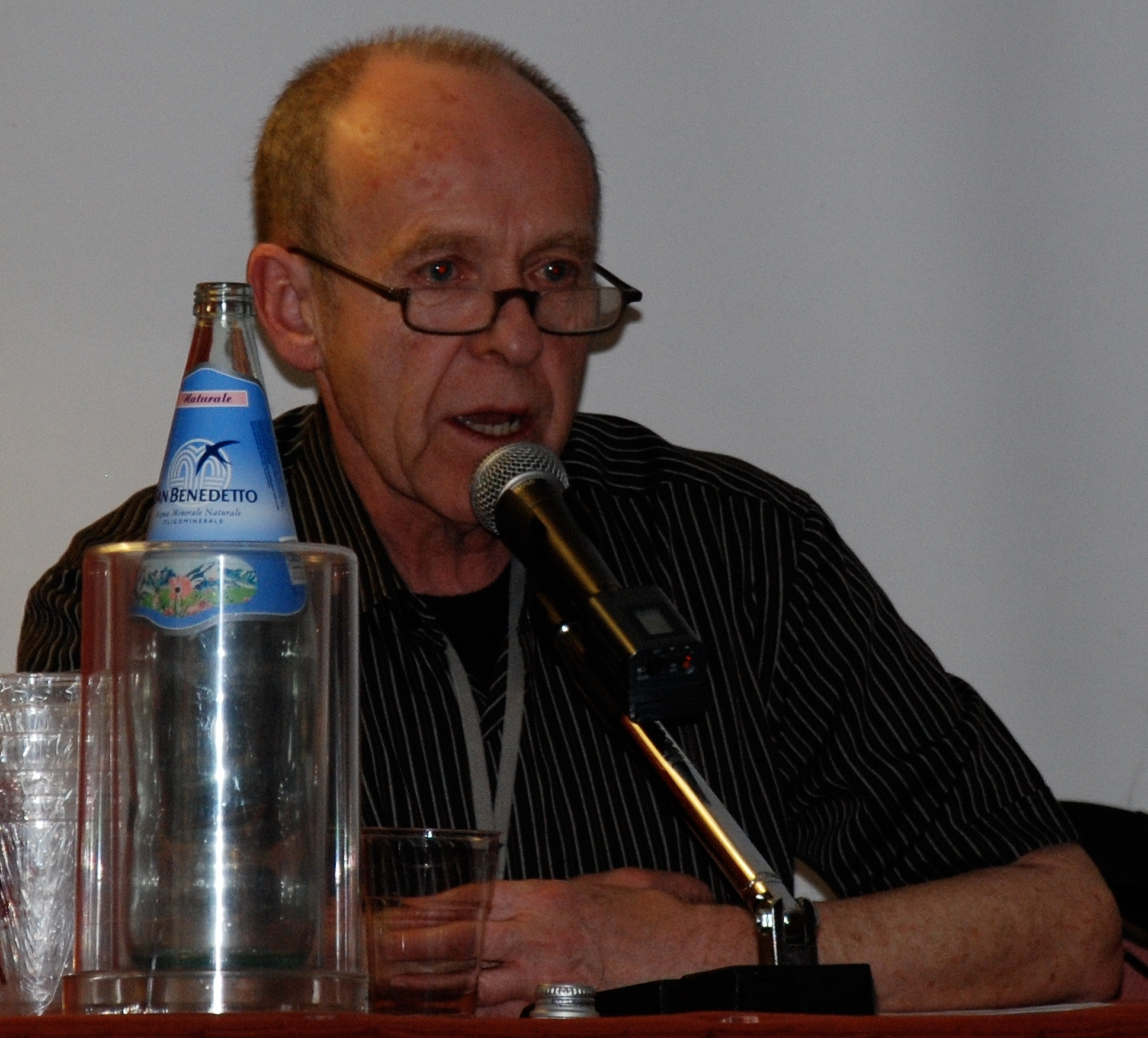 Ian Watson